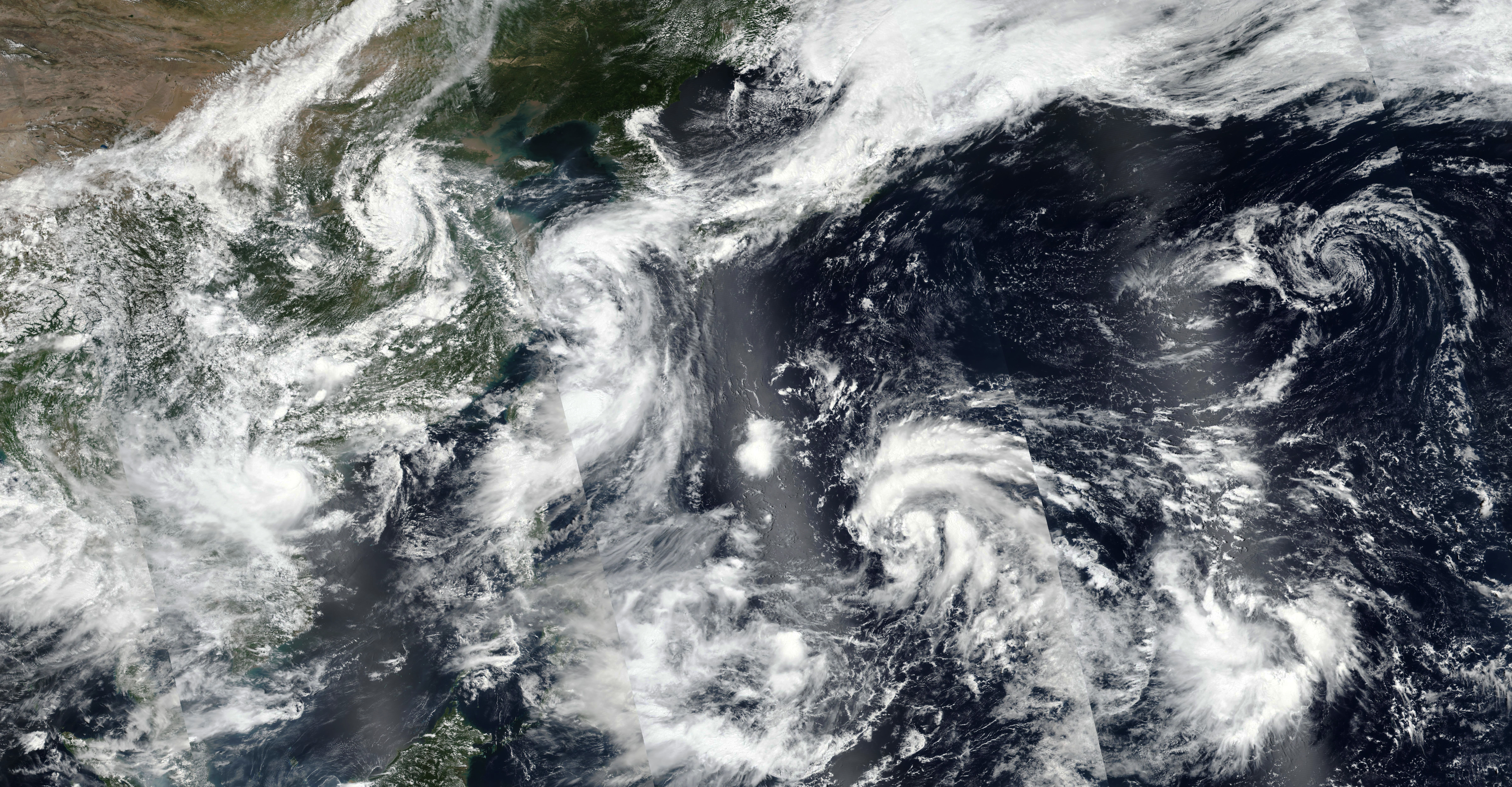 Severe Tropical Storm Bebinca, Tropical storms Rumbia and Soulik, The remnants of Severe Tropical Storm Leepi and Tropical Storm Yagi, The remnants of Hector and JMA TD 27 on August 16, 2018